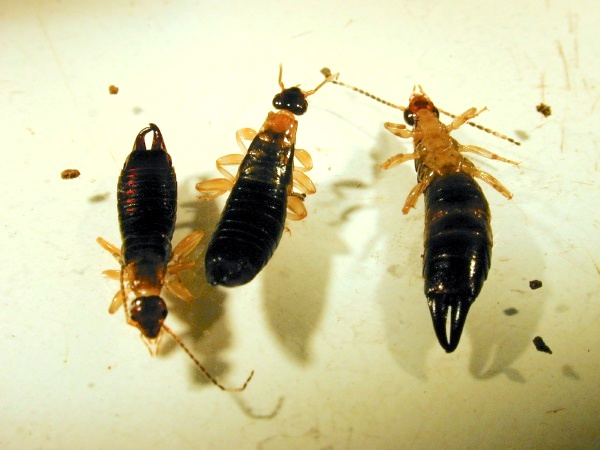 earwig species Euborellia sp. from Kahoolawe, HI, USA Attribution: Forest & Kim Starr